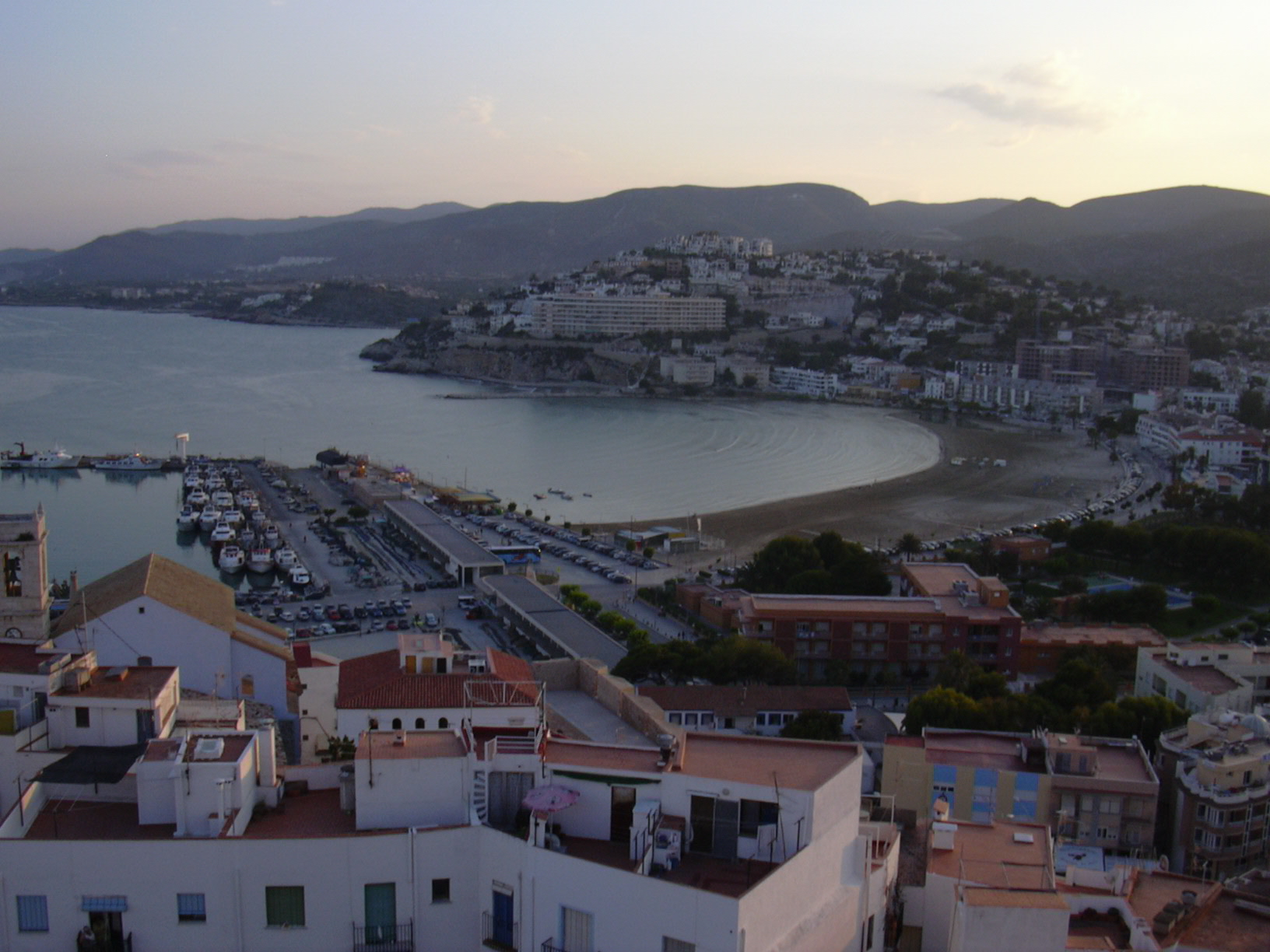 Panoramic view of Peñíscola (Spain) from the Castle.